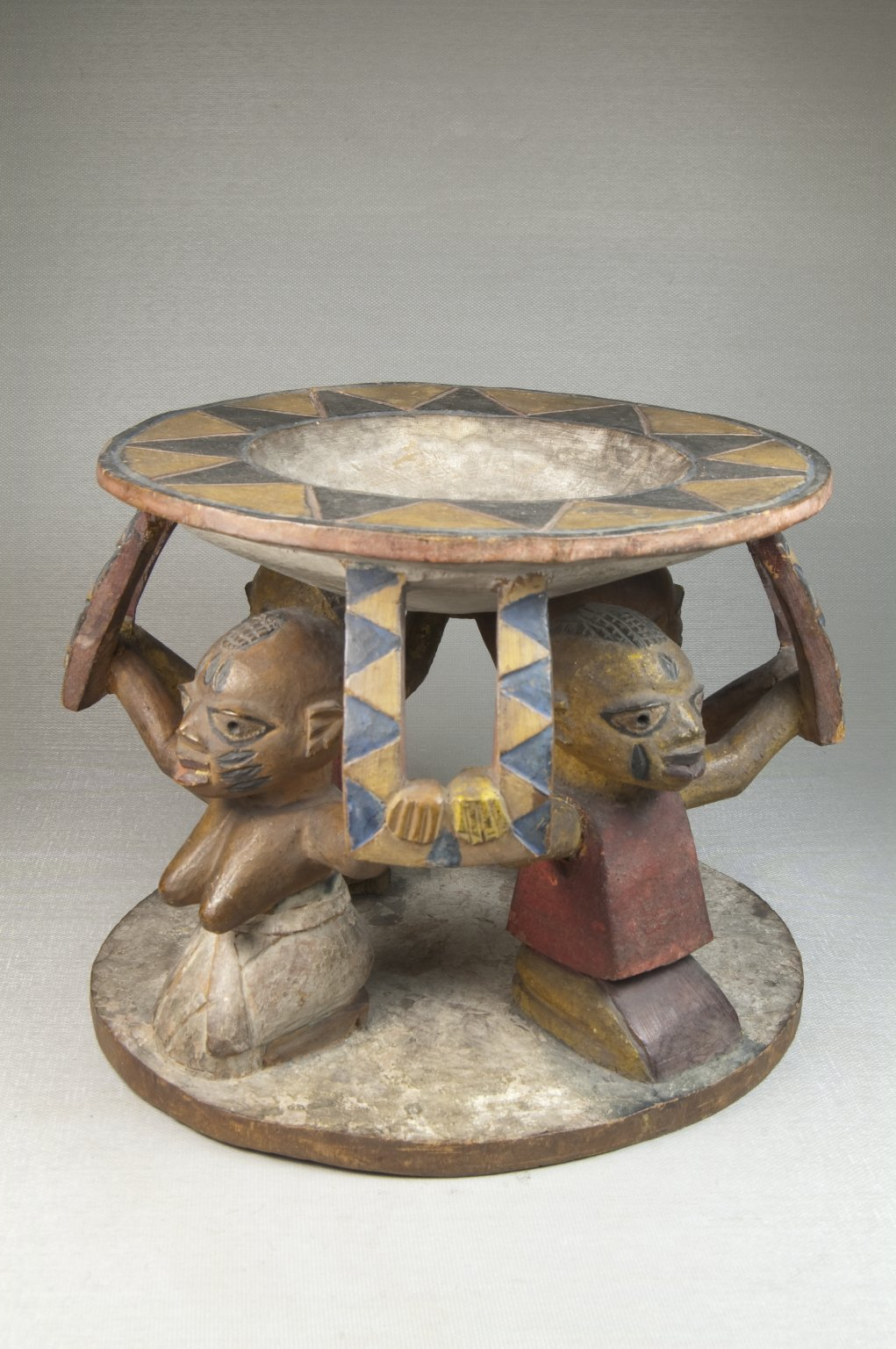 Dish supported by four polychrome kneeling figures, two with shirts, two bare-chested. Decorated with triangular motif, disk shaped base.